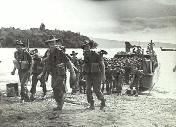 Australian troops from the 16th Infantry Battalion, 13th Brigade, land at Karlai Plantation on New Britain